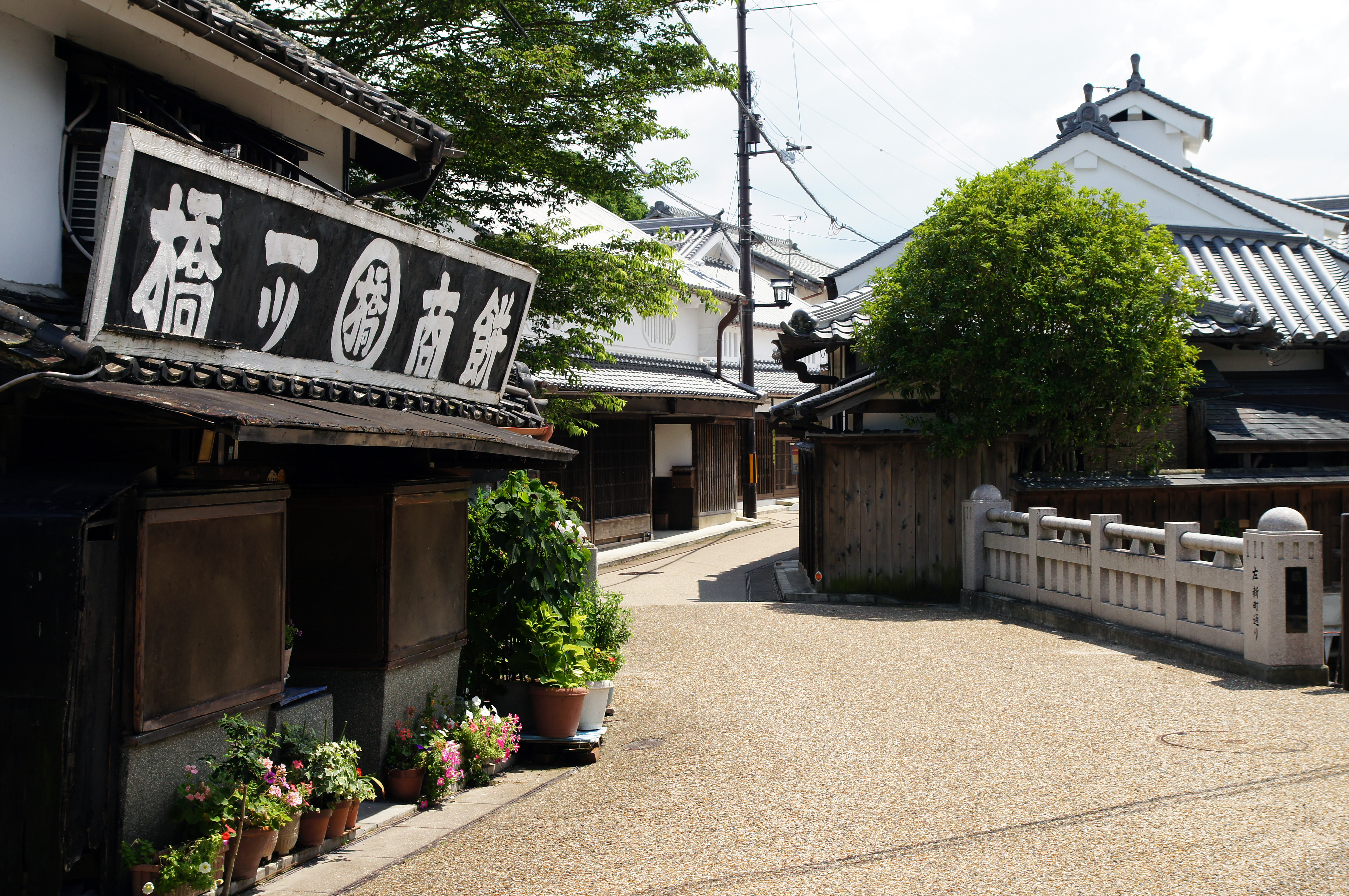 Gojo Shinmachi designated as Important Preservation Districts for Groups of Historic Buildings in Japan. It is located in Gojo, Nara prefecture, Japan.